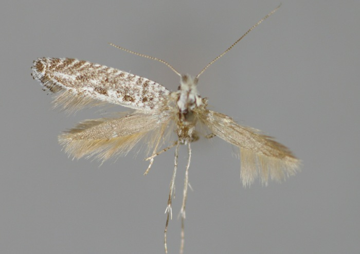 Parornix anguliferella, Weibchen